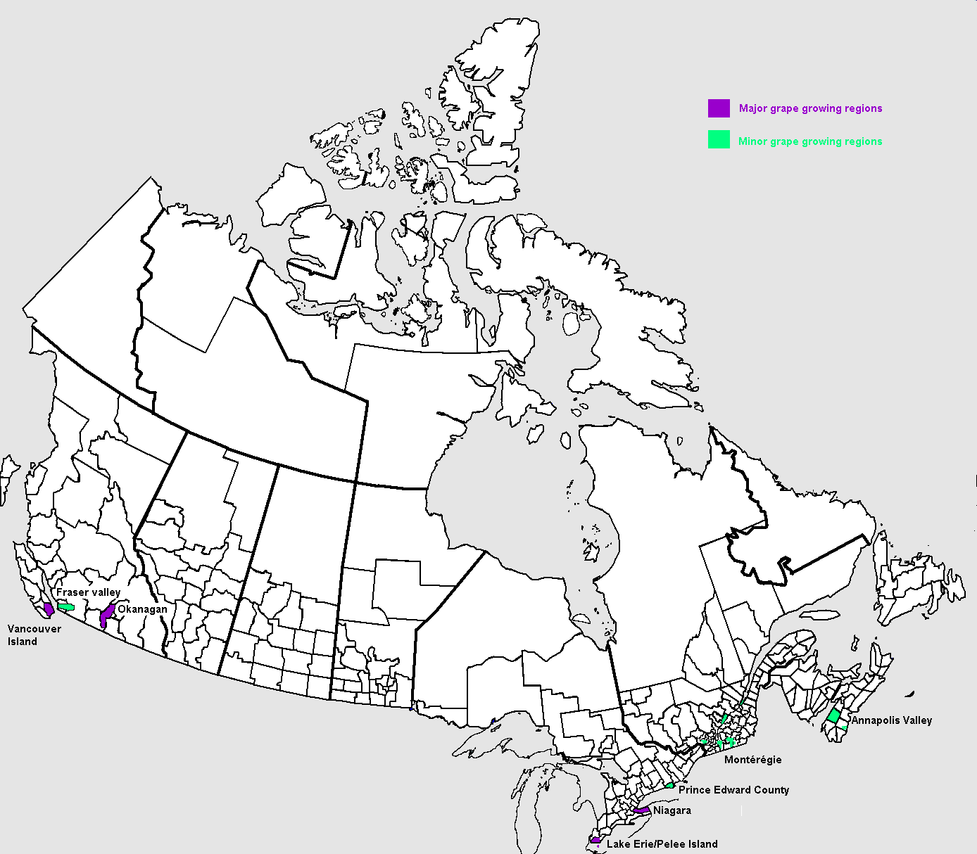 Map of grape growing regions in Canada. Own work based on Public Domain Census Subdivision map by Earl Andrew at File:Censusdivisions.PNG and information in John Schreiner (2005), The Wines of Canada, ISBN1-84533-007-2